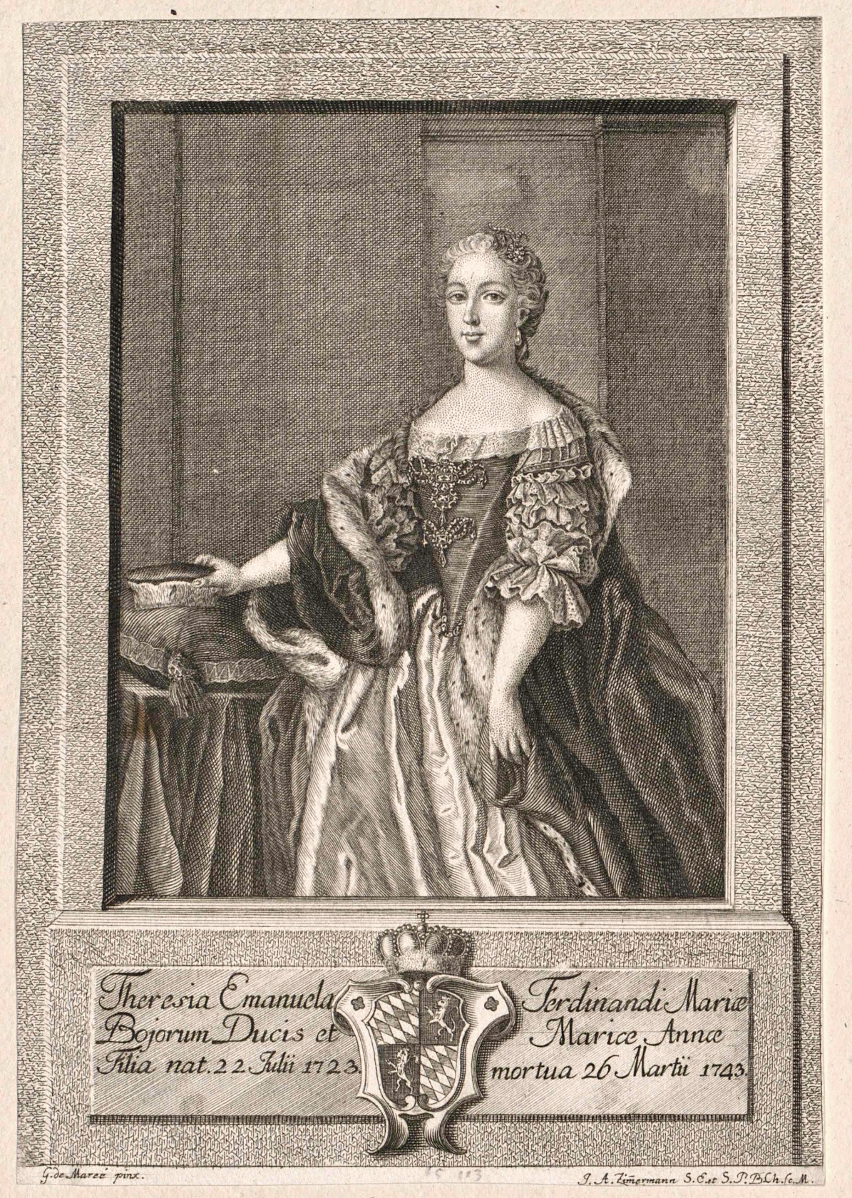 Portrait of Theresia Emanuela von Bayern (1723-1743), part of The Series Imaginum Augustae Domus Boicae, ad Genuina Ectypa Aliaque Monum Fide Digna delin. et Aaeri Incidit, Monachium (A Series of Portraits of the Noble House of Bavaria...) is a genealogical series of portraits of members of the House of Wittelsbach engraved by Joseph Anton Zimmermann after contemporary and old portraits by different artists, and published since 1773.